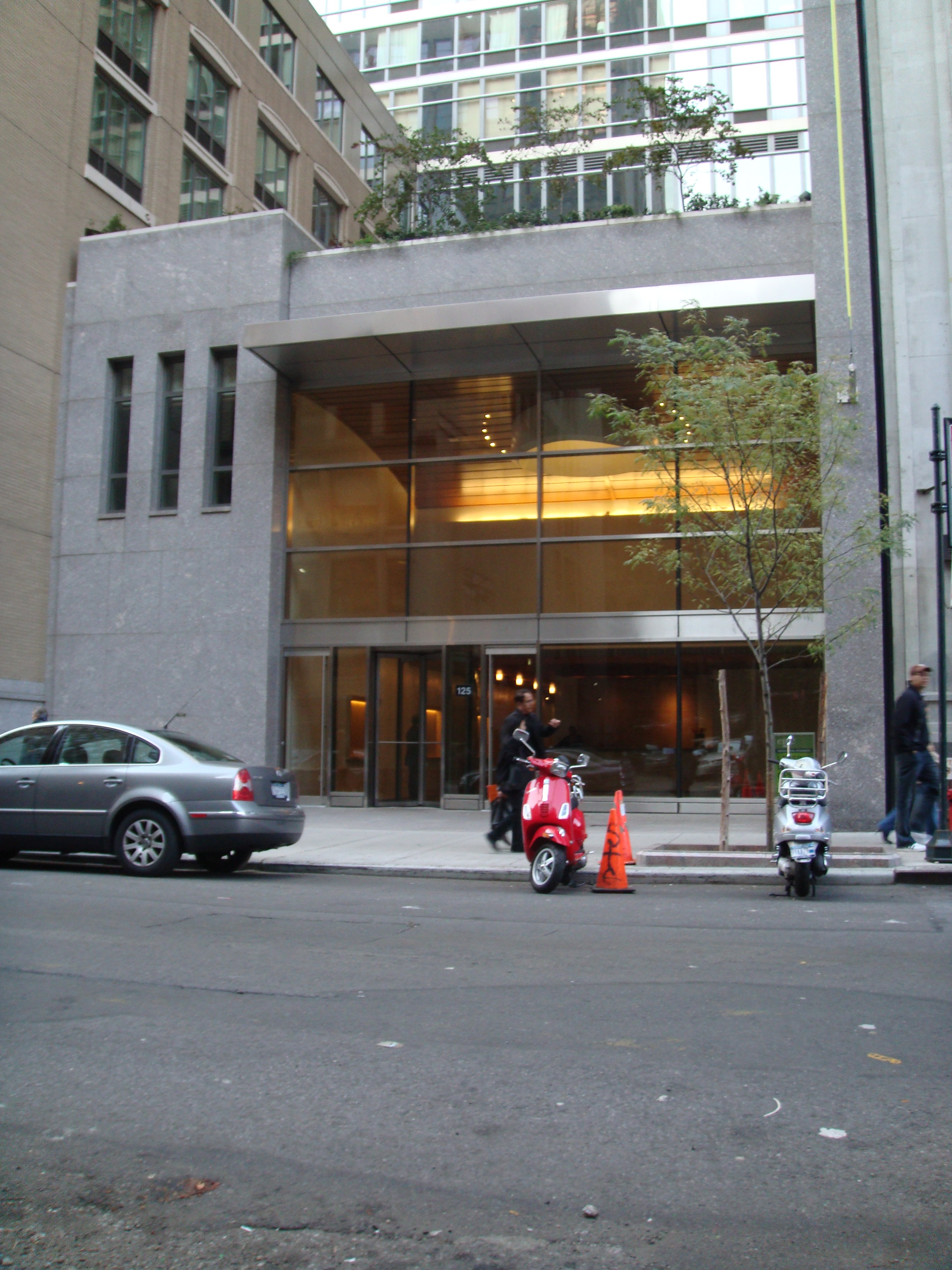 This photo is of Wikis Take Manhattan goal code D21, The Epic.